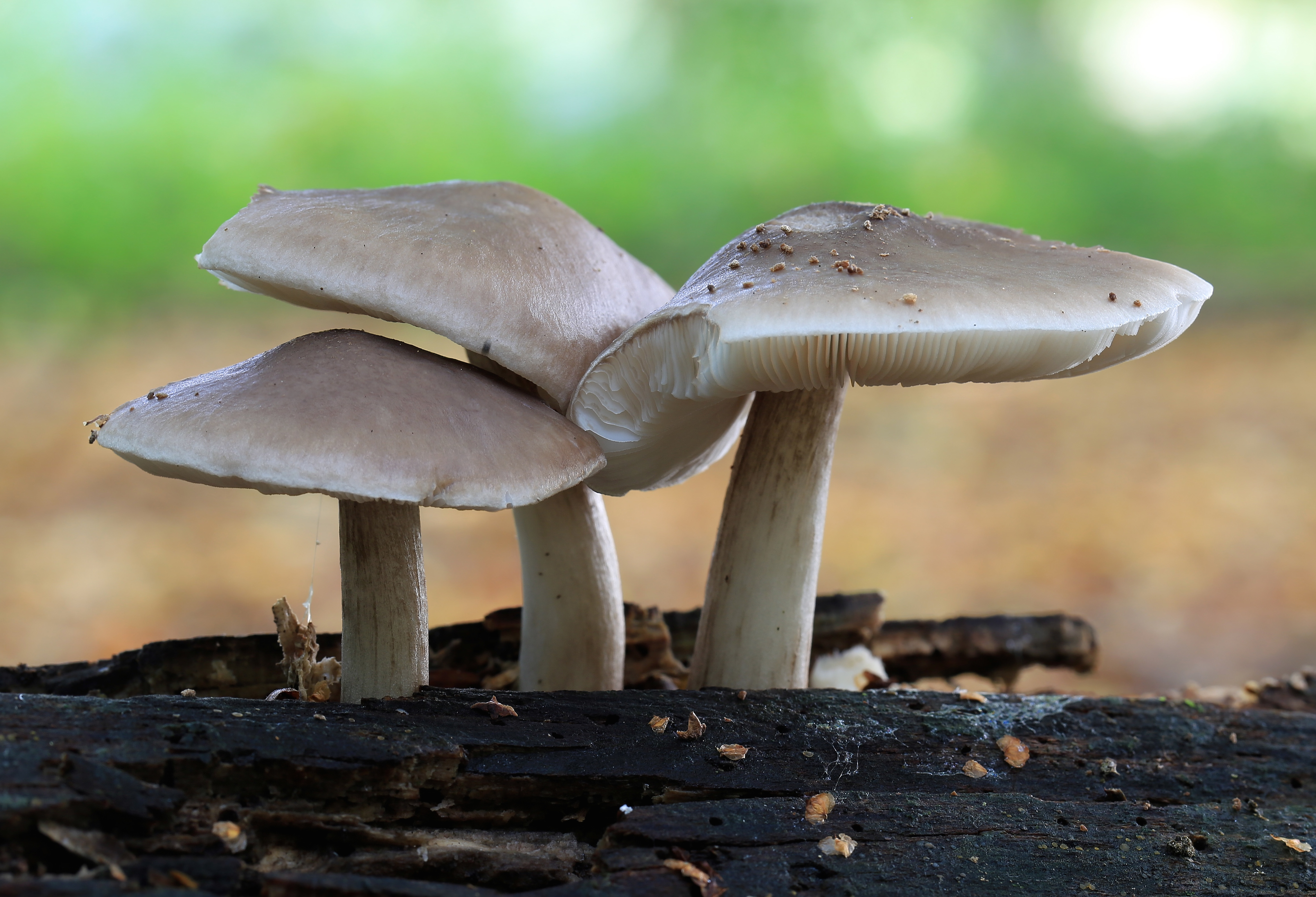 Pluteus cervinus, Deer Shield mushroom, taken in London, UK